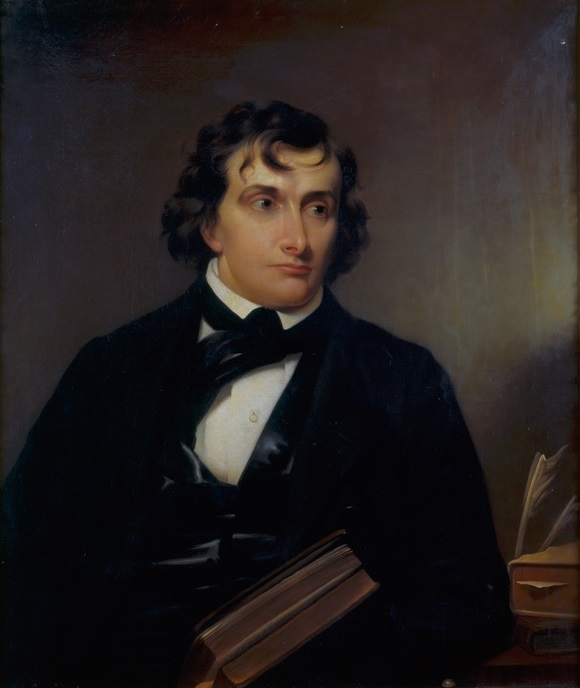 Elisha Reynolds Potter, Jr. (Rhode Island Judge and Congressman)